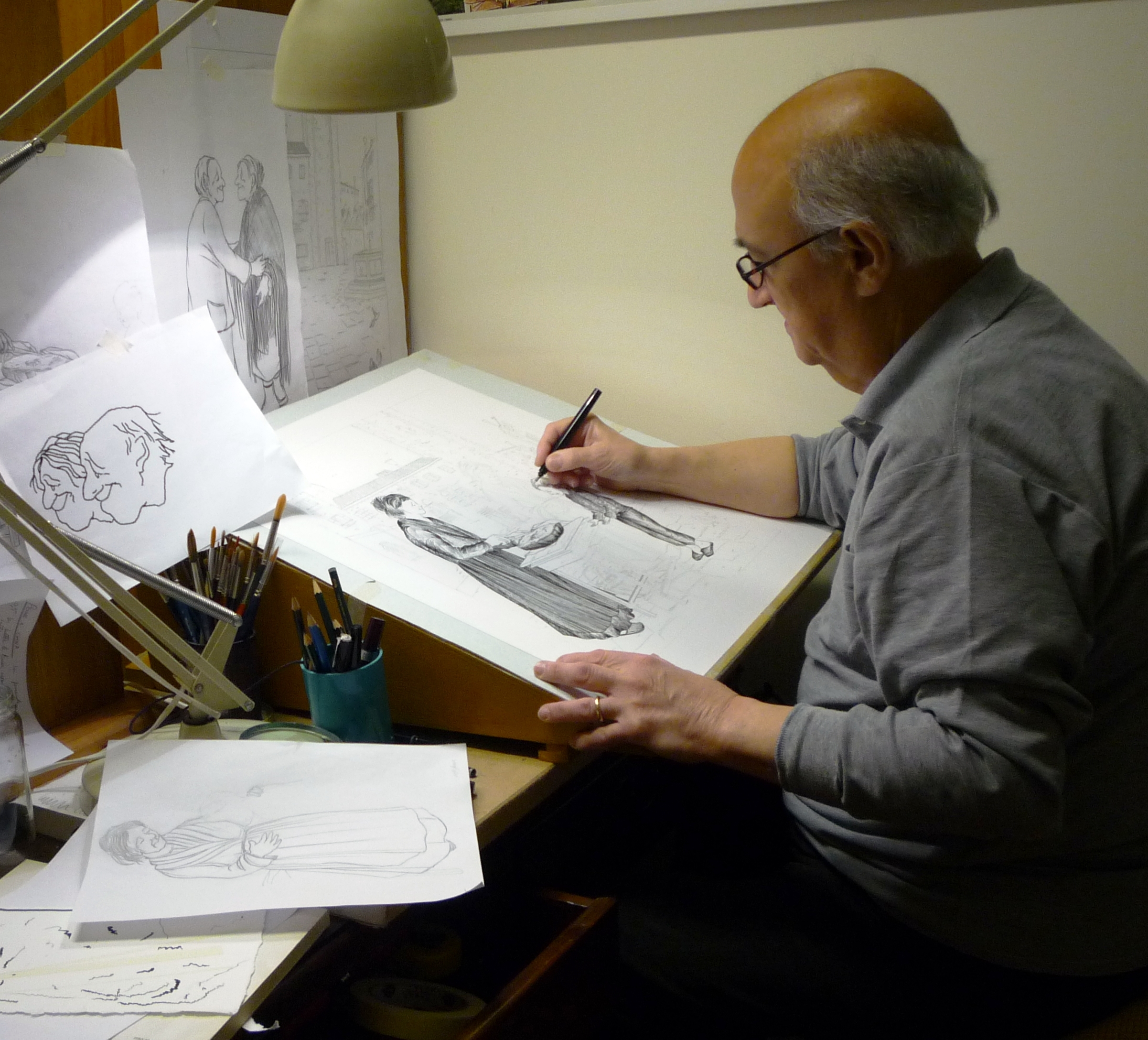 The italian draughtsman Francesco Valma at work (entry in Wikipedia).